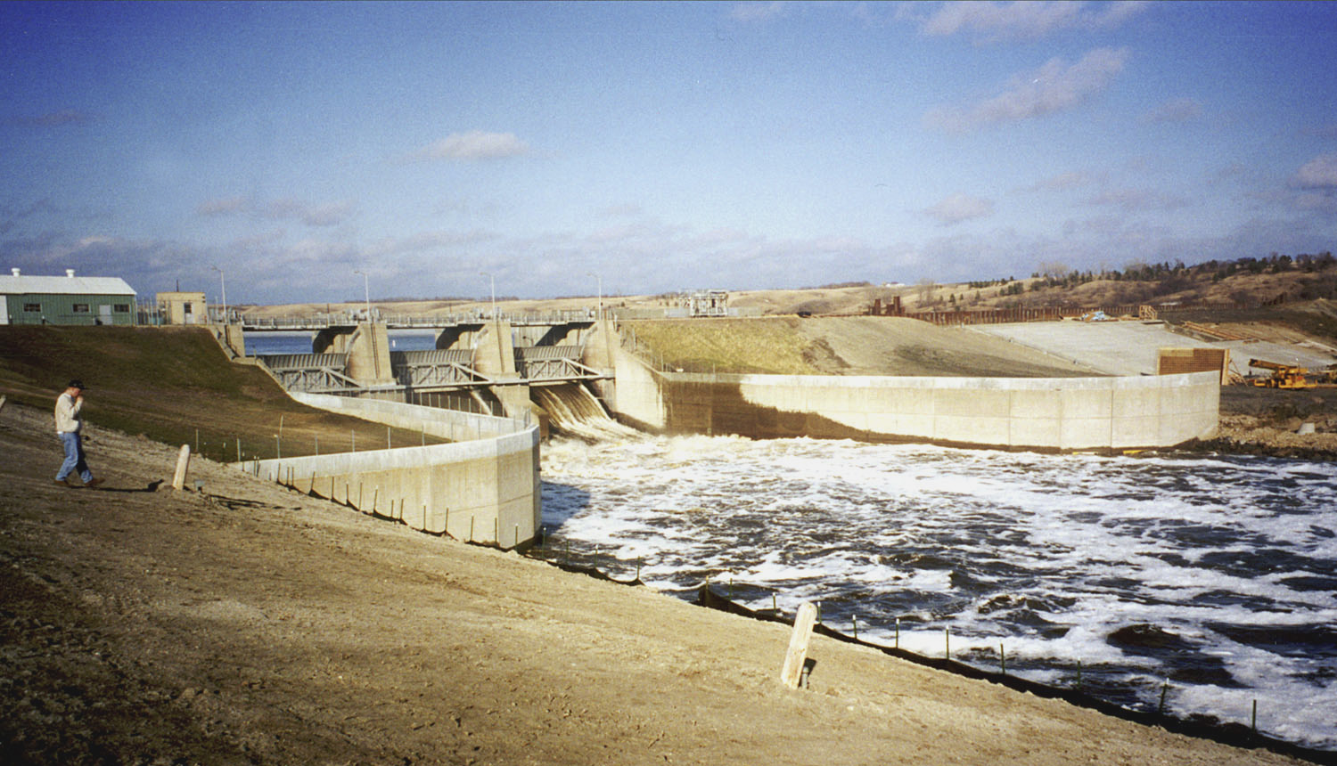 Baldhill Dam on the Sheyenne River near Valley City, North Dakota, USA. The photograph was taken during the spring 1996 flood on the Red River of the North.